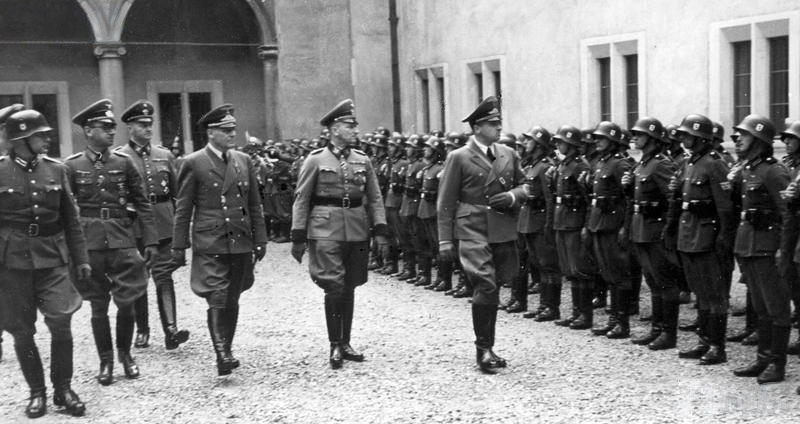 Occupied Krakow, 1943. Hans Frank (right), Herbert Becker (centre), Ernst Boepple (left) with the Nazi Sonderdienst.